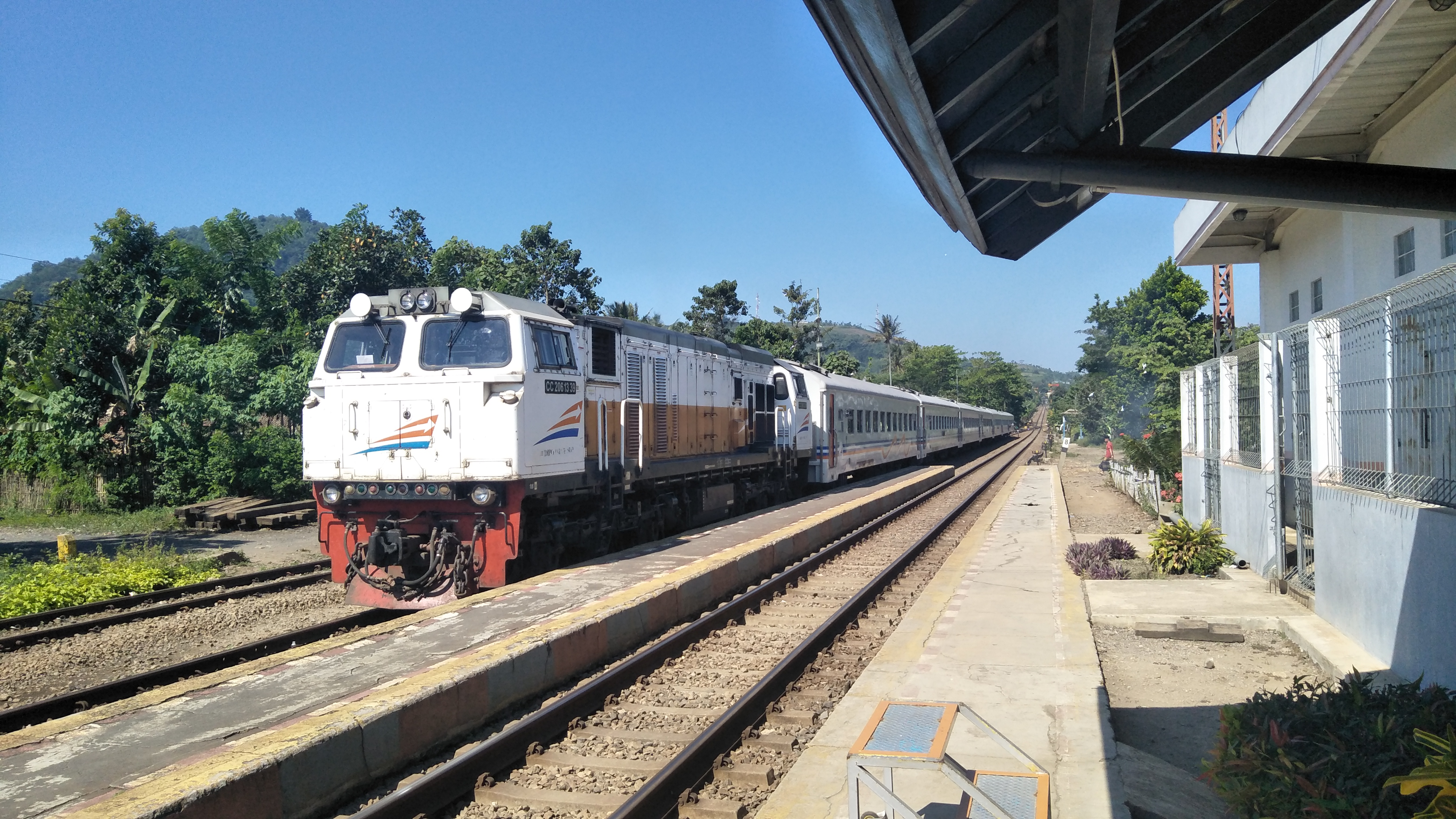 Galunggung train arriving Nagreg railway station